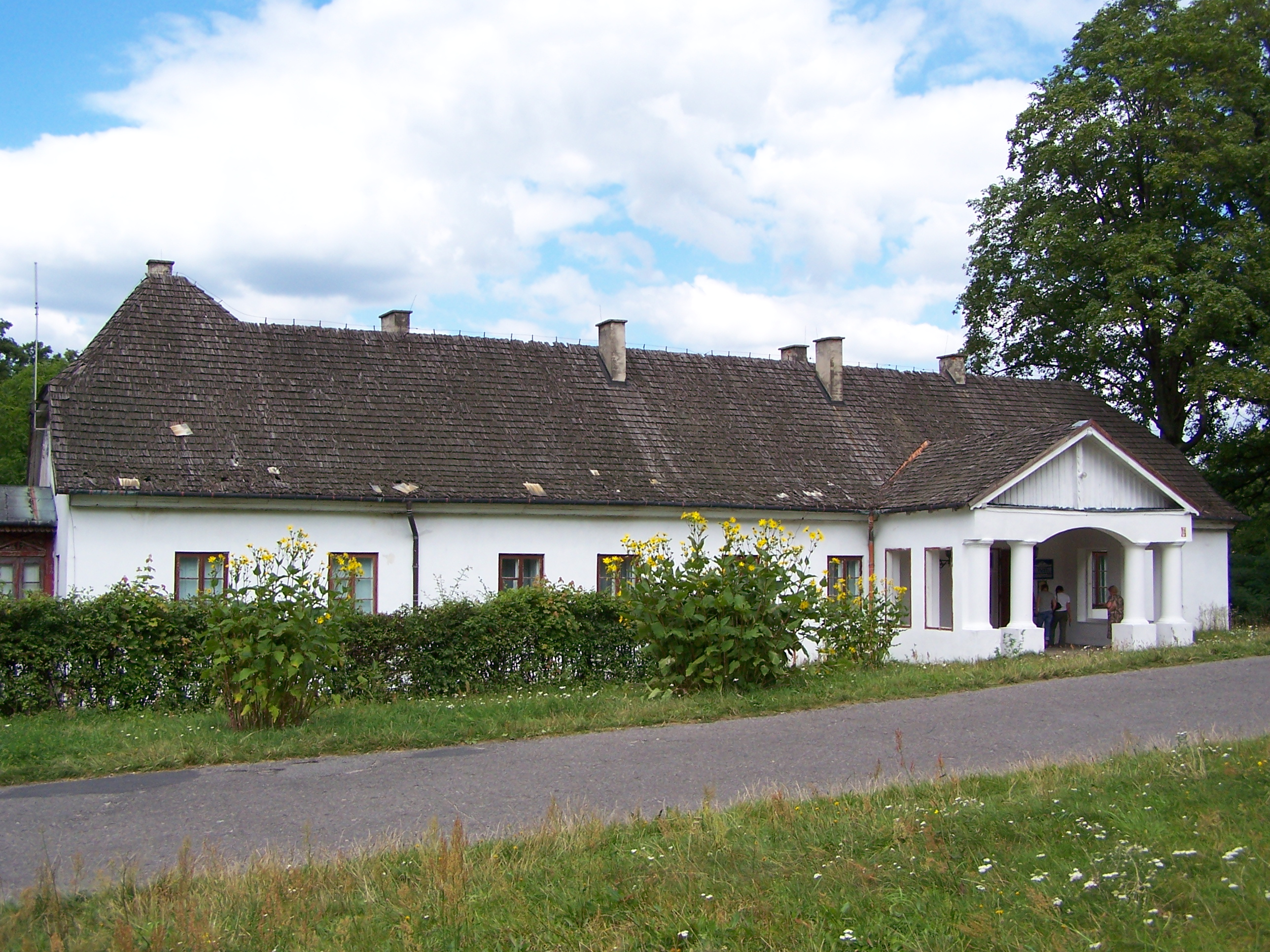 Krasińscy Mansion in Złoty Potok (Poland).